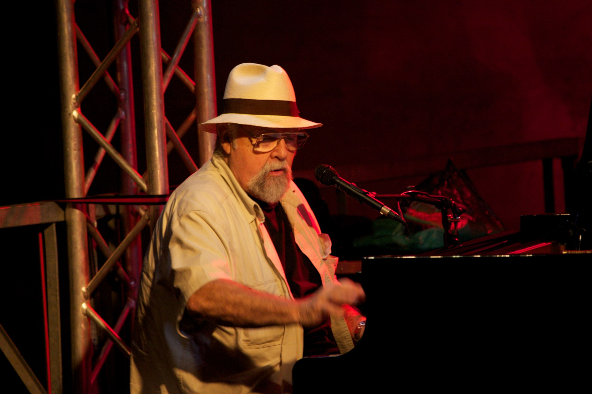 Settembrinu di tavagna @ u cotone 2012.